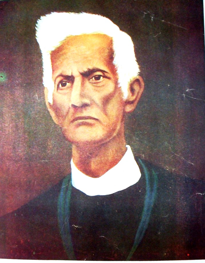 FakirMohan Senapati